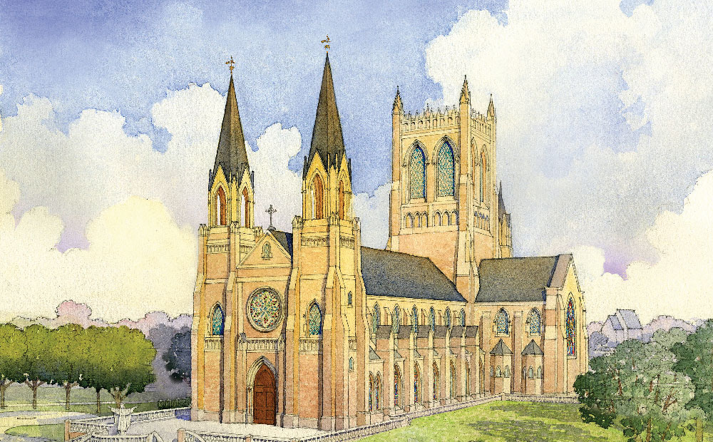 An artist's rendering of the new Chapel of Christ the King that will be built at Christendom College.